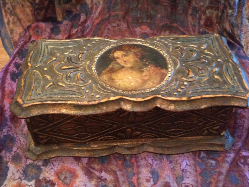 Decoupage on antique Florentine style small carved box